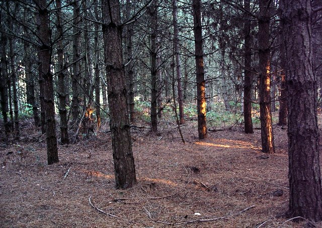 Site of WW1 trenches, Sherwood Pines Forest Park (2) Another view of the area where troops were trained during WW1. The trees were not there then, of course. The first steps towards afforestation of Clipstone Forest were taken in 1925 with the signing of a 999-year lease between the Forestry Commission and the Welbeck and Rufford estates for more than 3,000 acres of land, which was to become the new Clipstone Forest. (Info courtesy of Thomas E. Kirton). See also 77534.